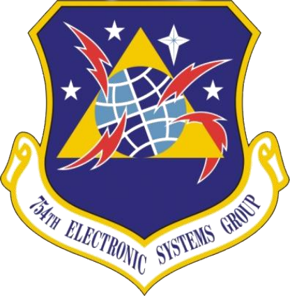 754th Electronic Systems Group Emblem